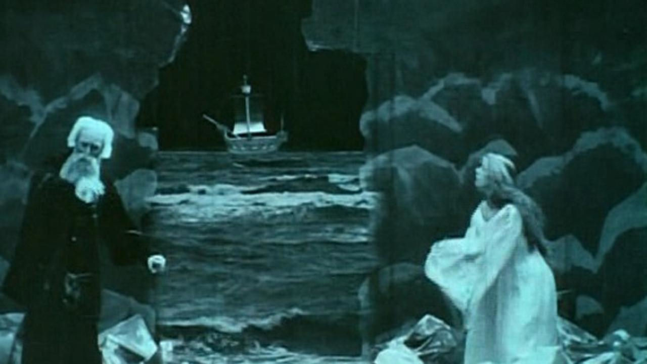 Prospero watched by Miranda summons a storm to wreck Duke Antonio's ship